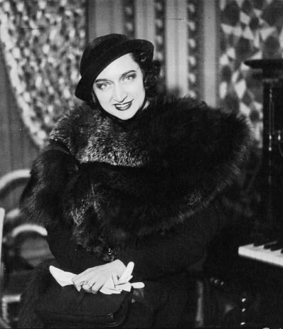 French singer Lys Gauty (1908-1994).